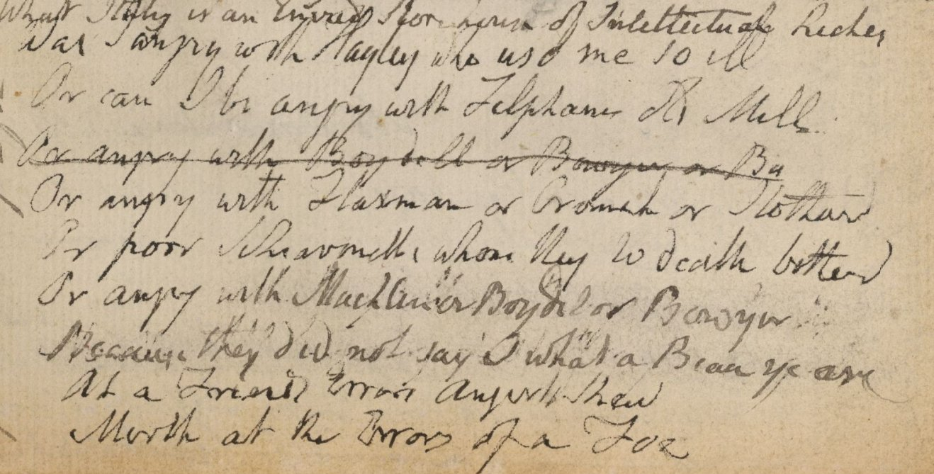 Blake manuscript - Notebook 1808 - 04 Was I angry with Hayley who usd me so ill